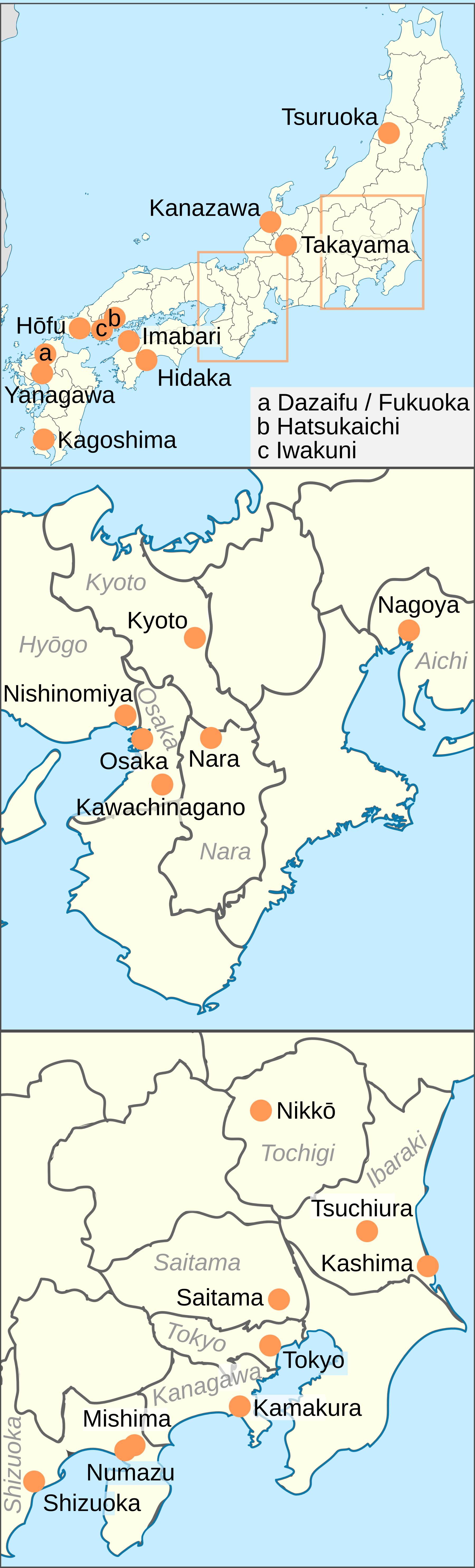 Map showing the location of sword and sword mounting National Treasures of Japan in the category crafts.